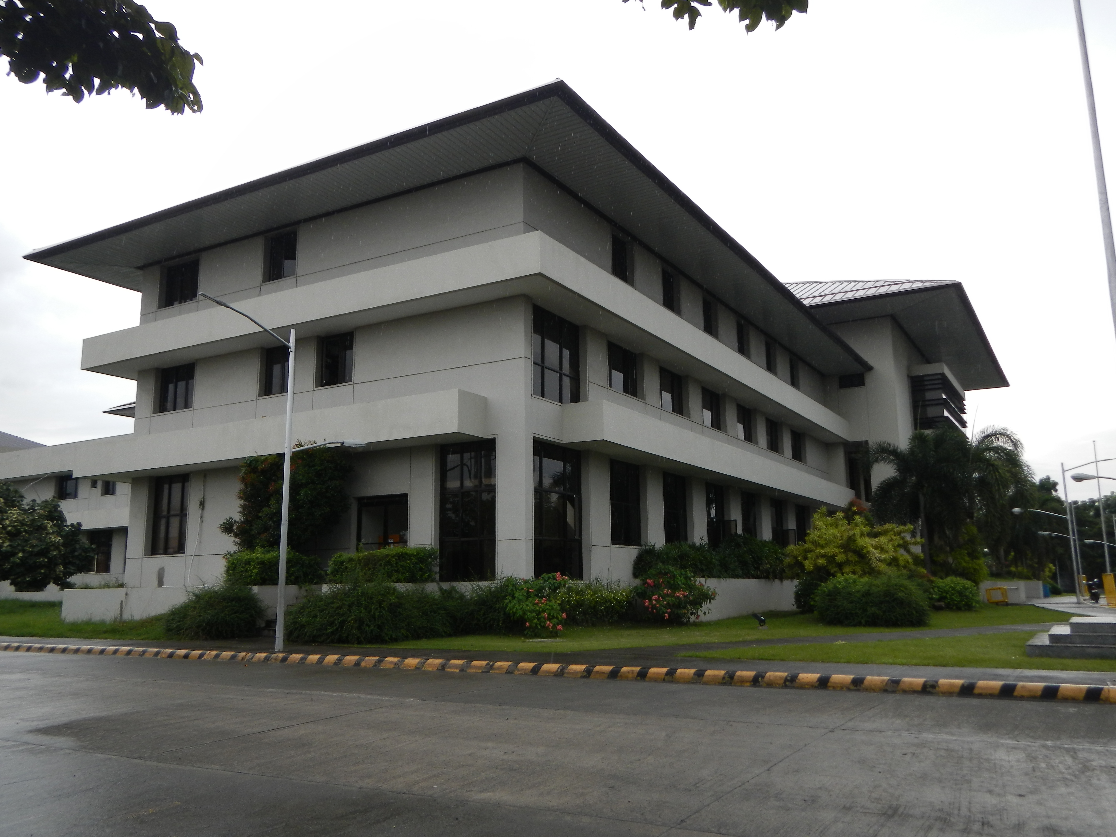 UploadWizard photos --- (general description) of (landmarks, heritage, culture, comprehensive, photography) of – La Consolacion College – Biñan [1] La Consolacion College, Biñan [2] - at - Biñan, Laguna [3] -- & -- the --- New (Government) Biñan City Hall [4] Coordinates: 14°18'54"N 121°4'46"E.